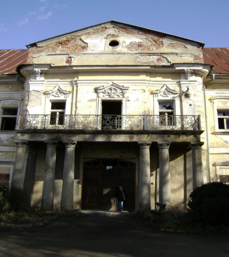 castle in Snina